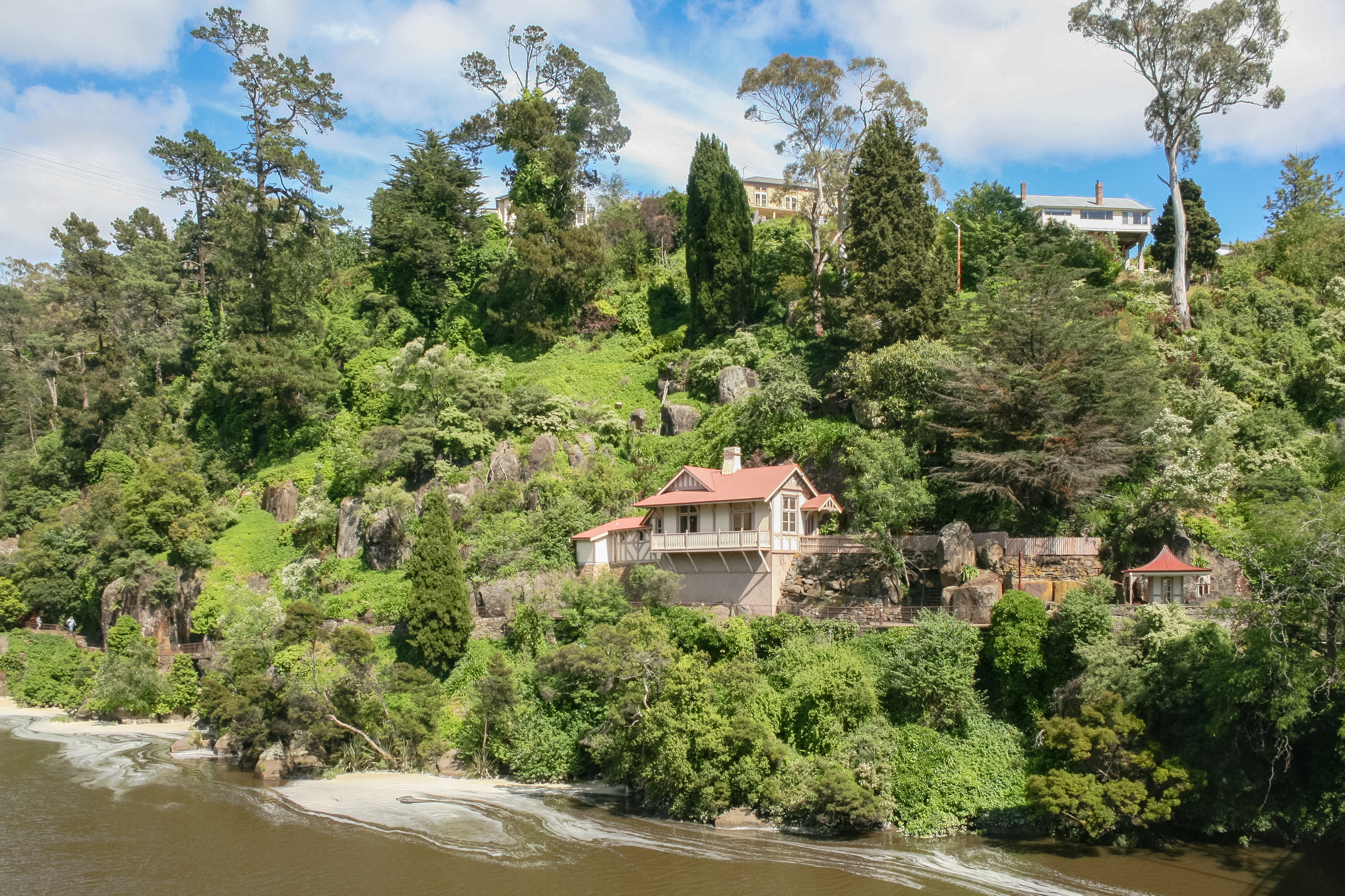 Houses at the shore of South Eask River from King's Bridge, Launceston, Tasmania, Australia